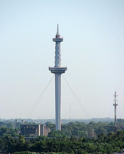 The "Space Needle," City Amusement Park, Villa Soldati. Manufactured in Austria in 1980, it was inaugurated in 1982.